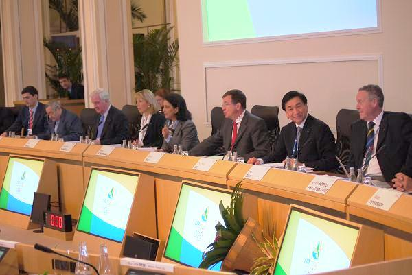 The IOC side of the presentation room in Rio De Janeiro.